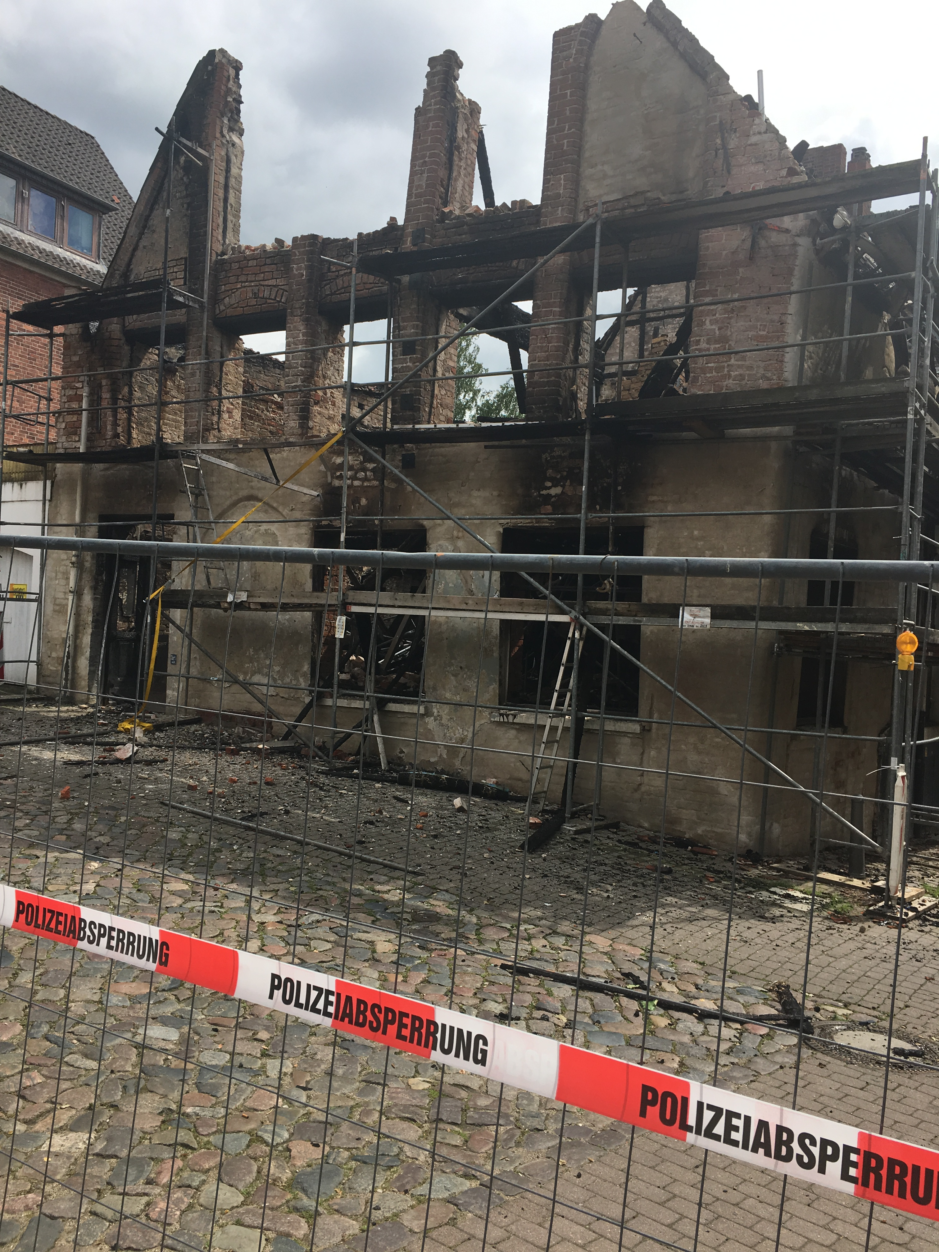 Building Hinter der Burg 15 in Lübeck